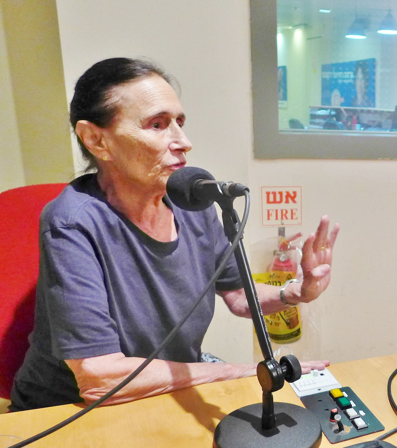 YAEL DAYAN 2016